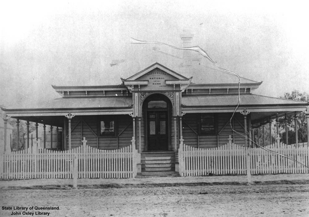 Facade of the Queensland National Bank Charleville circa 1889